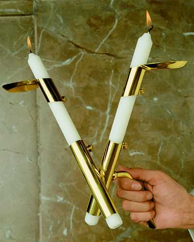 Candle holder used for the Blessing of Throats on the feast of St. Blaize.